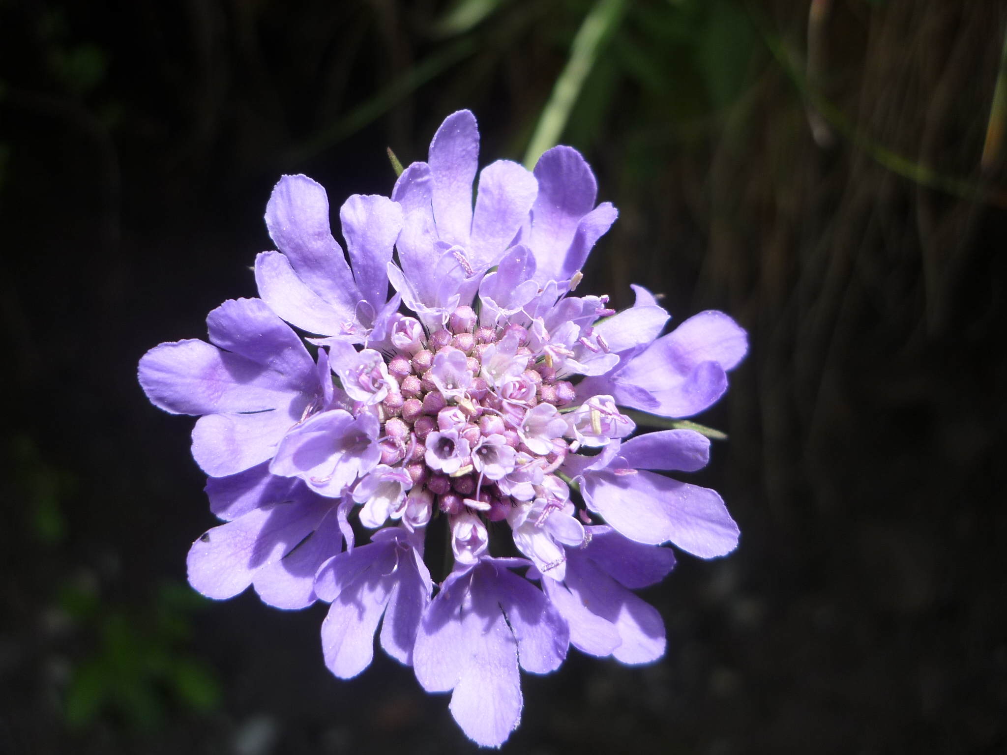 Scabiosa sp. In Vielha e Mijaran (Val d'Aran - Catalunya. To 1.580 m altitude